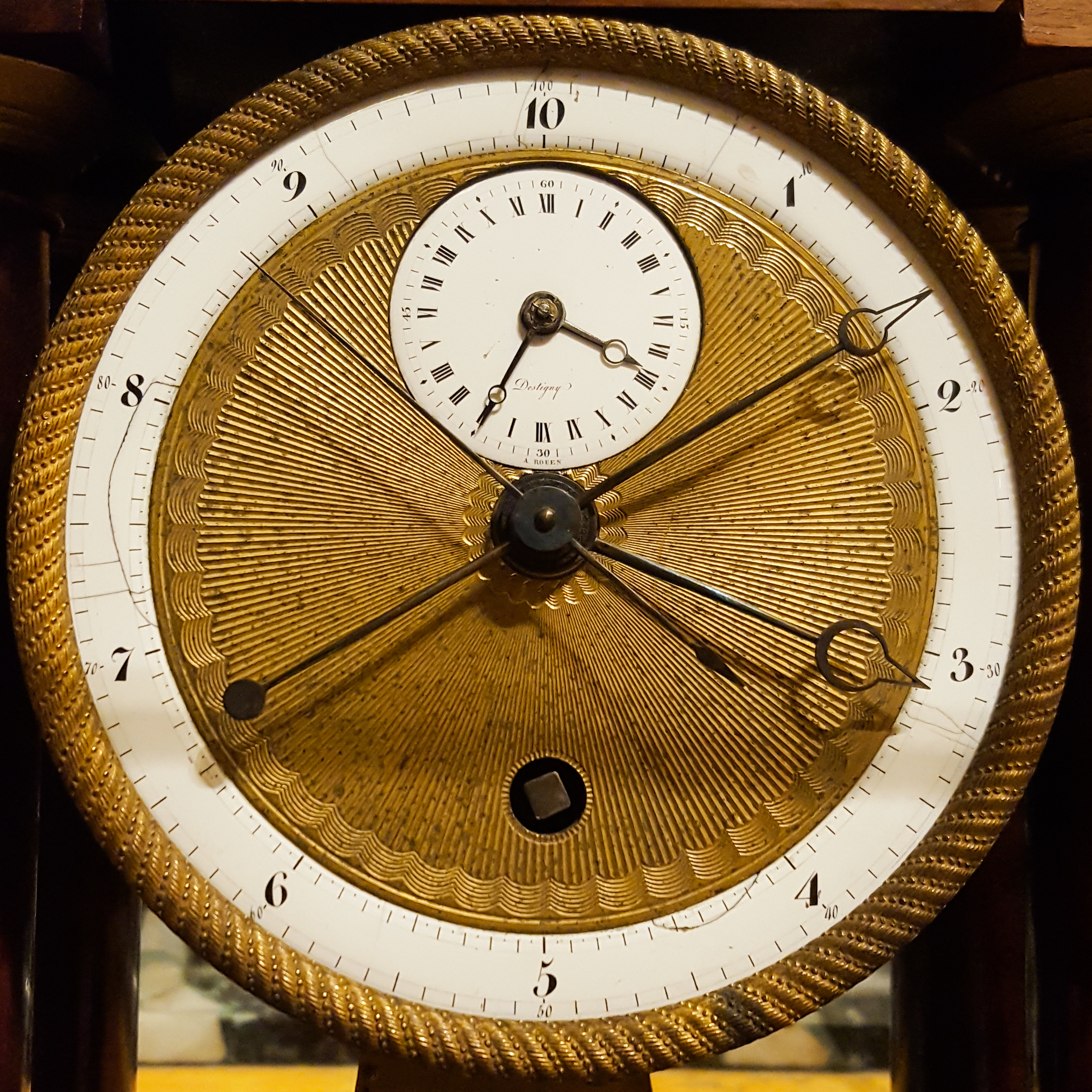 The face of a decimal clock in neo-classical style made by Pierre Daniel Destigny in Rouen, France, between 1798 and 1805. This clock is part of the collection of the Fitzwilliam Museum, Cambridge.